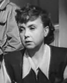 Maria Barabanova as Meg in Russian Question (1947)